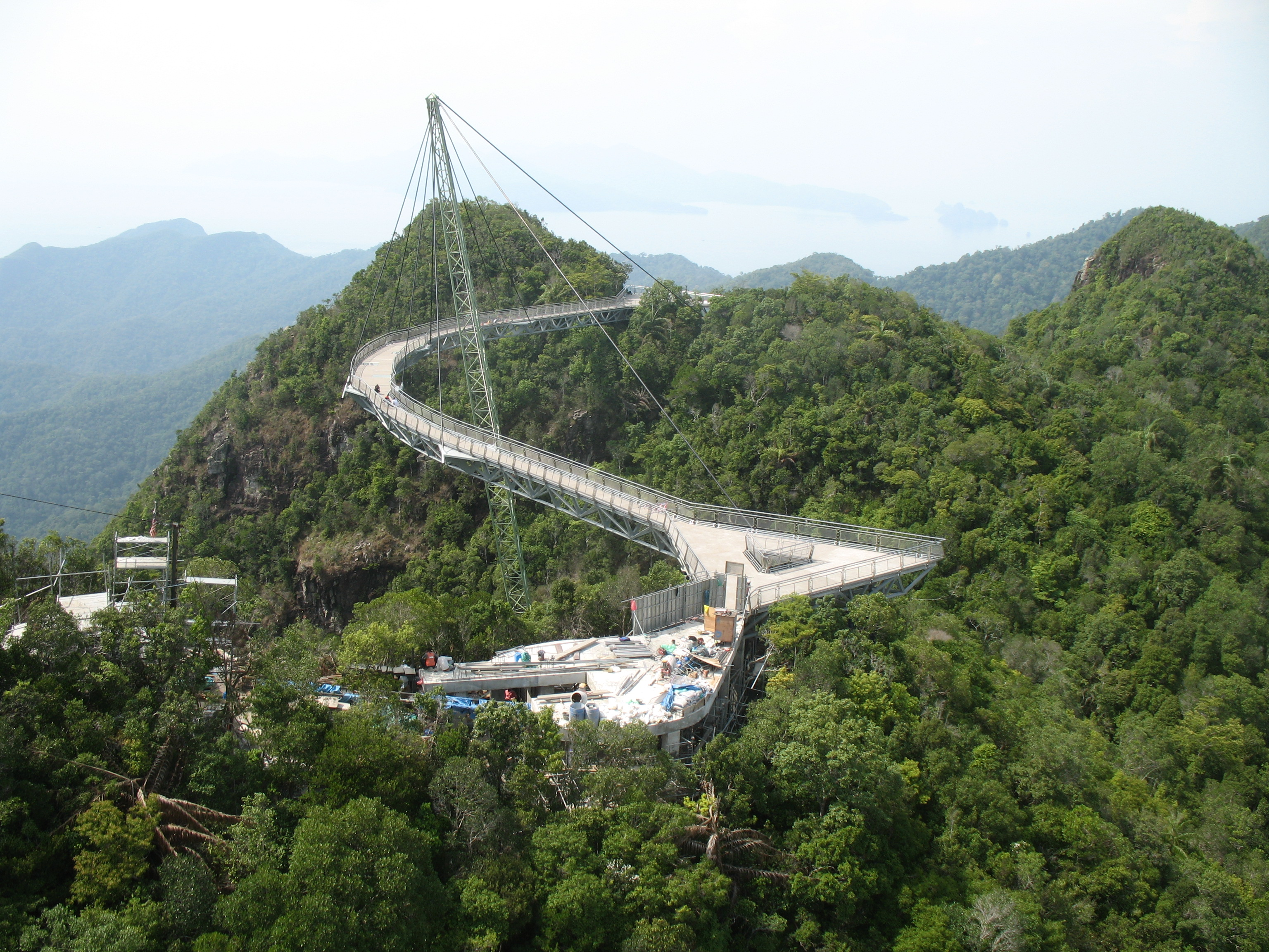 Construction of a new platform for an inclinator at Langkawi Sky Bridge in April 2015